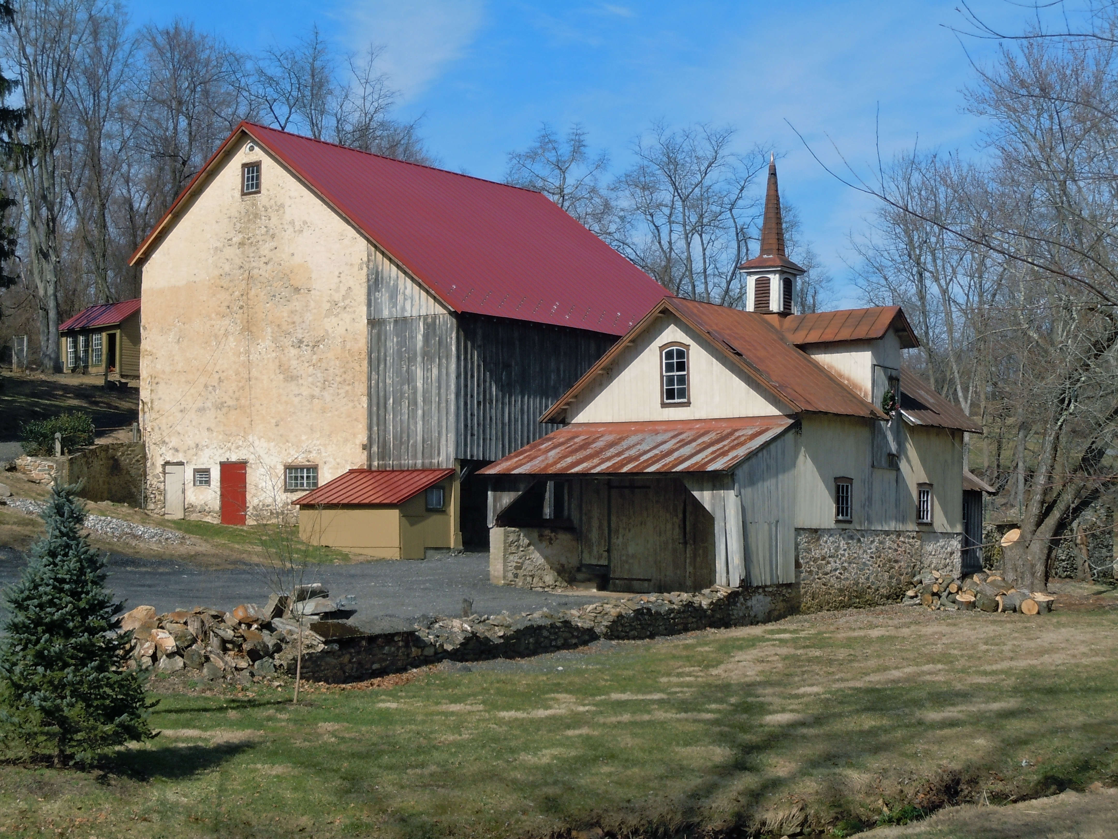 Bridge Mill Farm on the NRHP since March 9, 1983. On Marshall Road near Downingtown, right next to another NRHP site - Marshall's Bridge. In East Brandywine Township, Chester County, Pennsylvania.